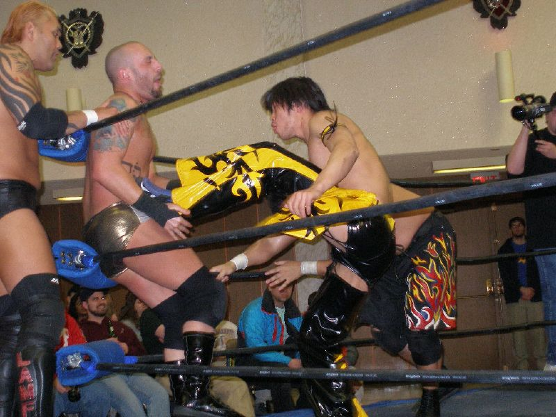 Professional wrestler KUDO kicking Sal Thomaselli at CHIKARA King of Trios 2007.